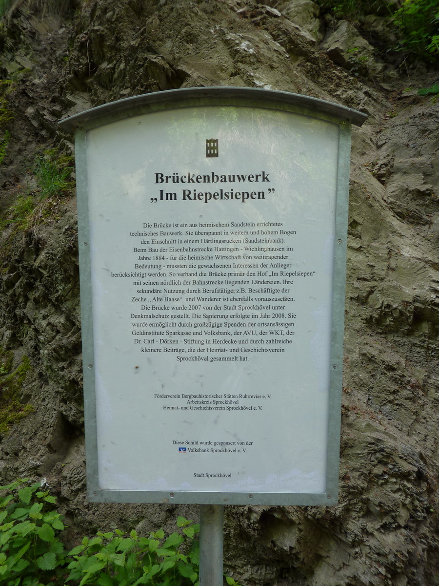 Infomation about the Riepelsiepen Bridge in Sprockhövel, Germany